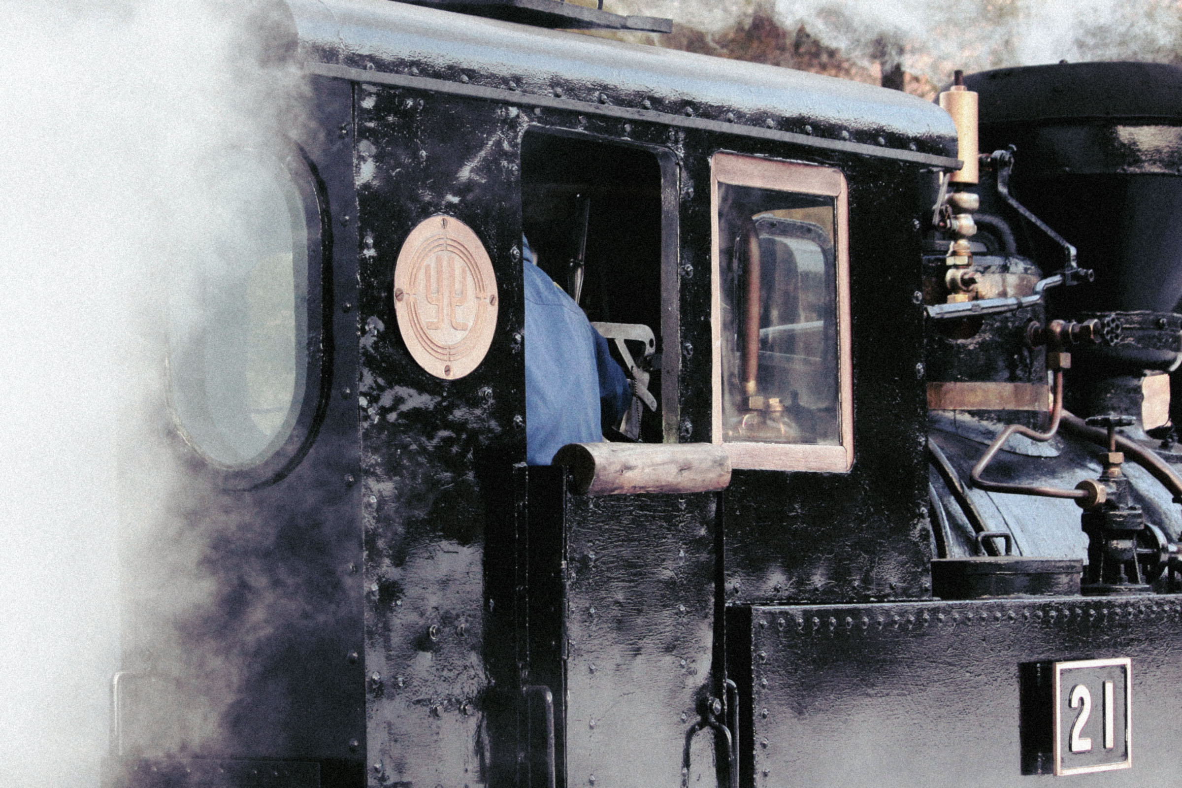 The mark plate of former Hokkaido Prefectual Agancy, Ministry of Home Affairs on Amemiya-21-go